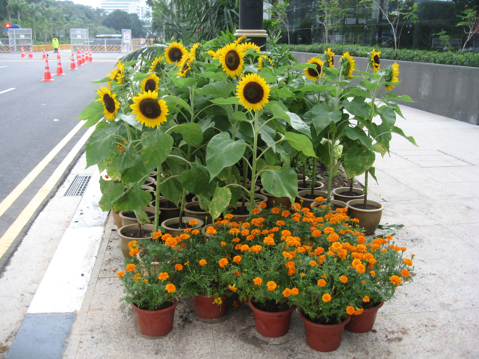 Potted plants during Singapore 2006.